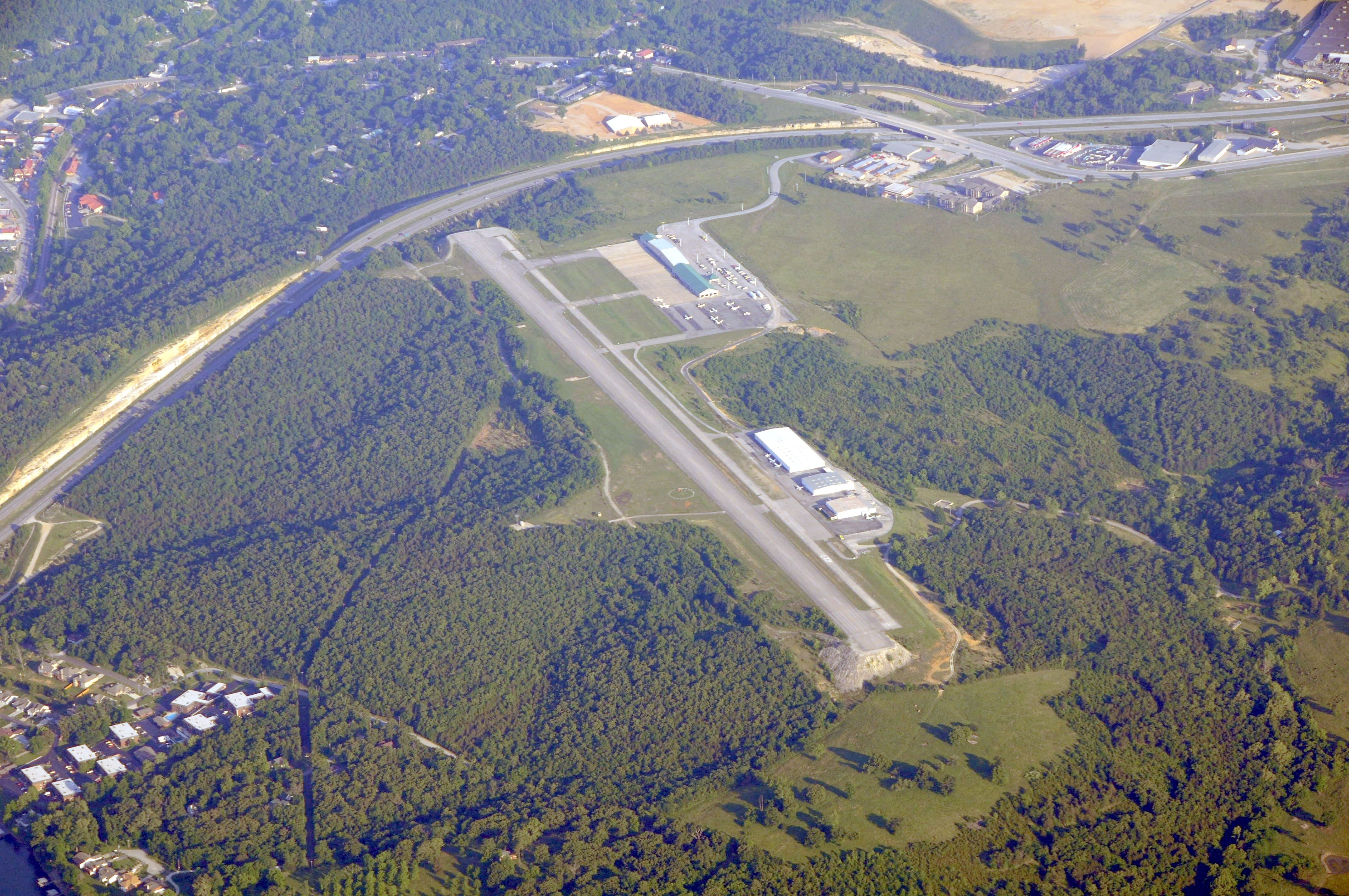 M. Graham Clark - Taney County Airport from the Northwest looking Southeast from 7,500 feet msl in heavy haze taken by Kelly Trimble June 1, 2009 for use in an article about the airport. M. Graham Clark - Taney County Airport from the Northwest looking Southeast from 7,500 feet msl in heavy haze taken by Kelly Trimble June 1, 2009 for use in an article about the airport.